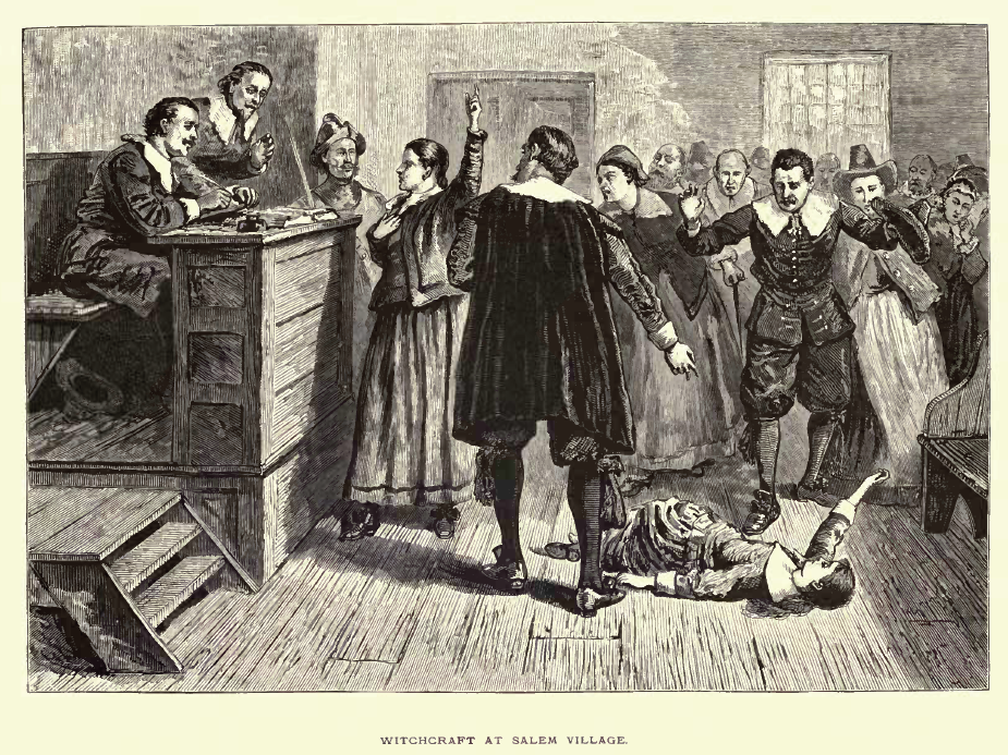 "Witchcraft at Salem Village", illustrated by either F.O.C. Darley, William L. Shepard, or Granville Perkins.